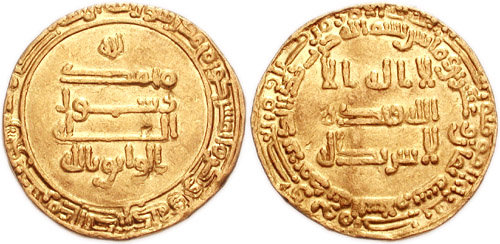 ISLAMIC DYNASTIES. Abbasids. Abu-Ja'far Harun al-Wathiq billah. AH 227-232 (842-847 AD). AV Dinar (22mm, 3.91 gm). Madinat al-Salam (Baghdad) mint. Dated AH 228 (843 AD). Kalima in three lines across field; Quran 30: 4-5 (part) in outher margin; "Bismillah struck was this dinar in Madinat al-Salam in the year eight and twenty and two hundred" in inner margin / "Second Symbol" (Quran 9: 33) in three lines across field; "al-Wathiq billah beneath; remainder of Second Symbol in outer margin. Cf. Kazan 135; Album 227. VF.